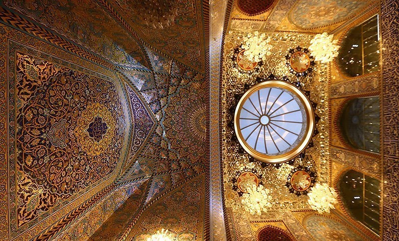 Imam Hussain Shrine in Karbala City